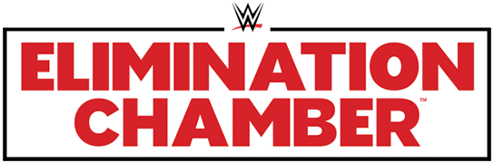 The logo used for the WWE Pay-per-view event Elimination Chamber since 2018.